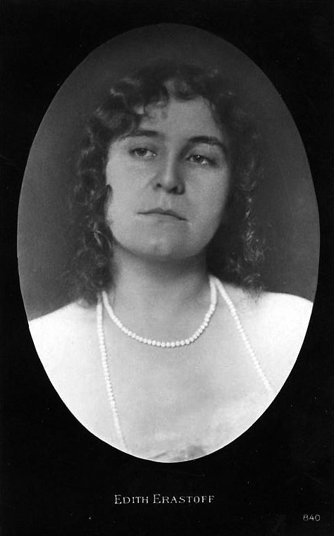 Edith Erastoff